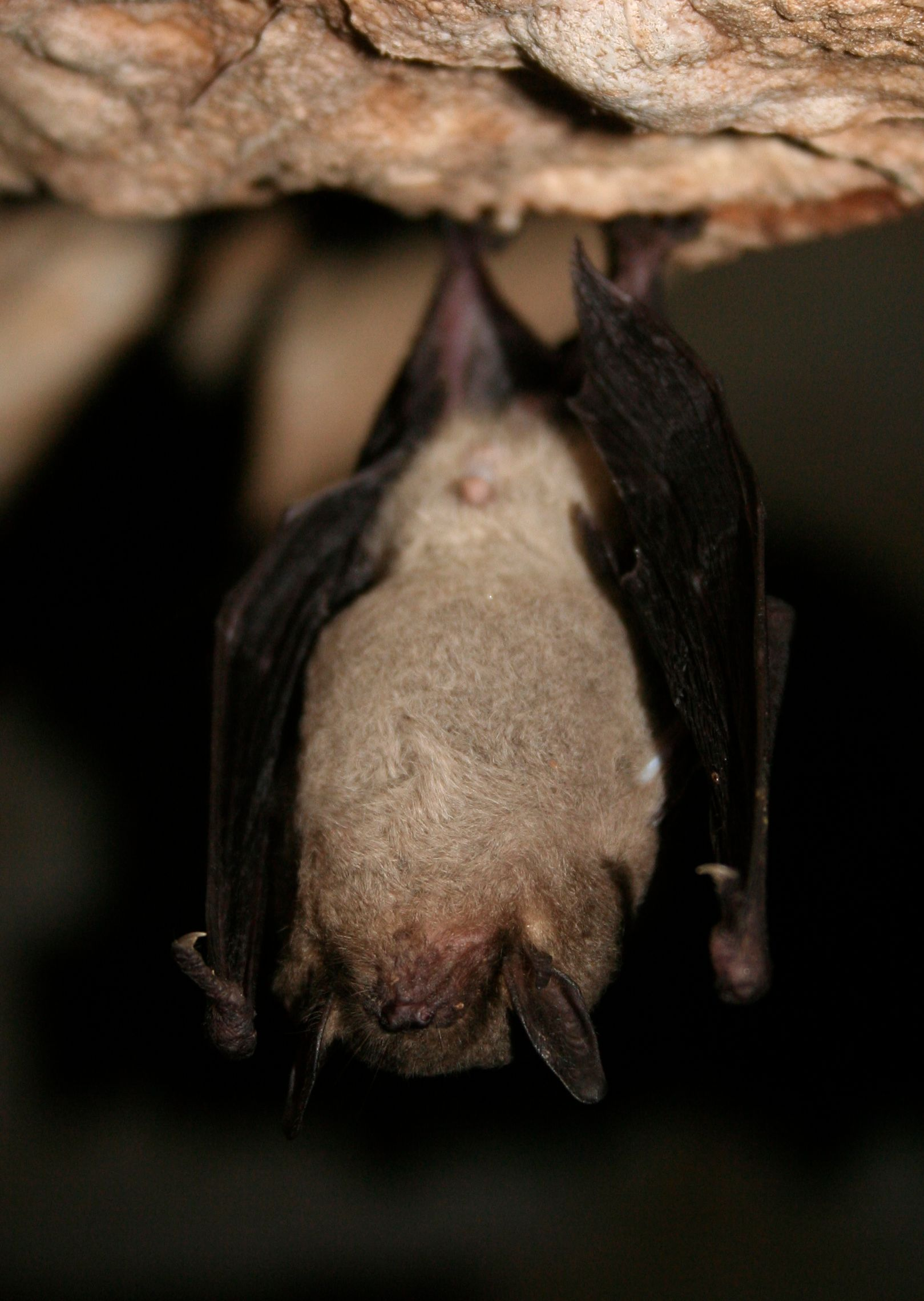 Hibernating gray bat (Myotis grisescens) credit: USFWS/Ann Froschauer